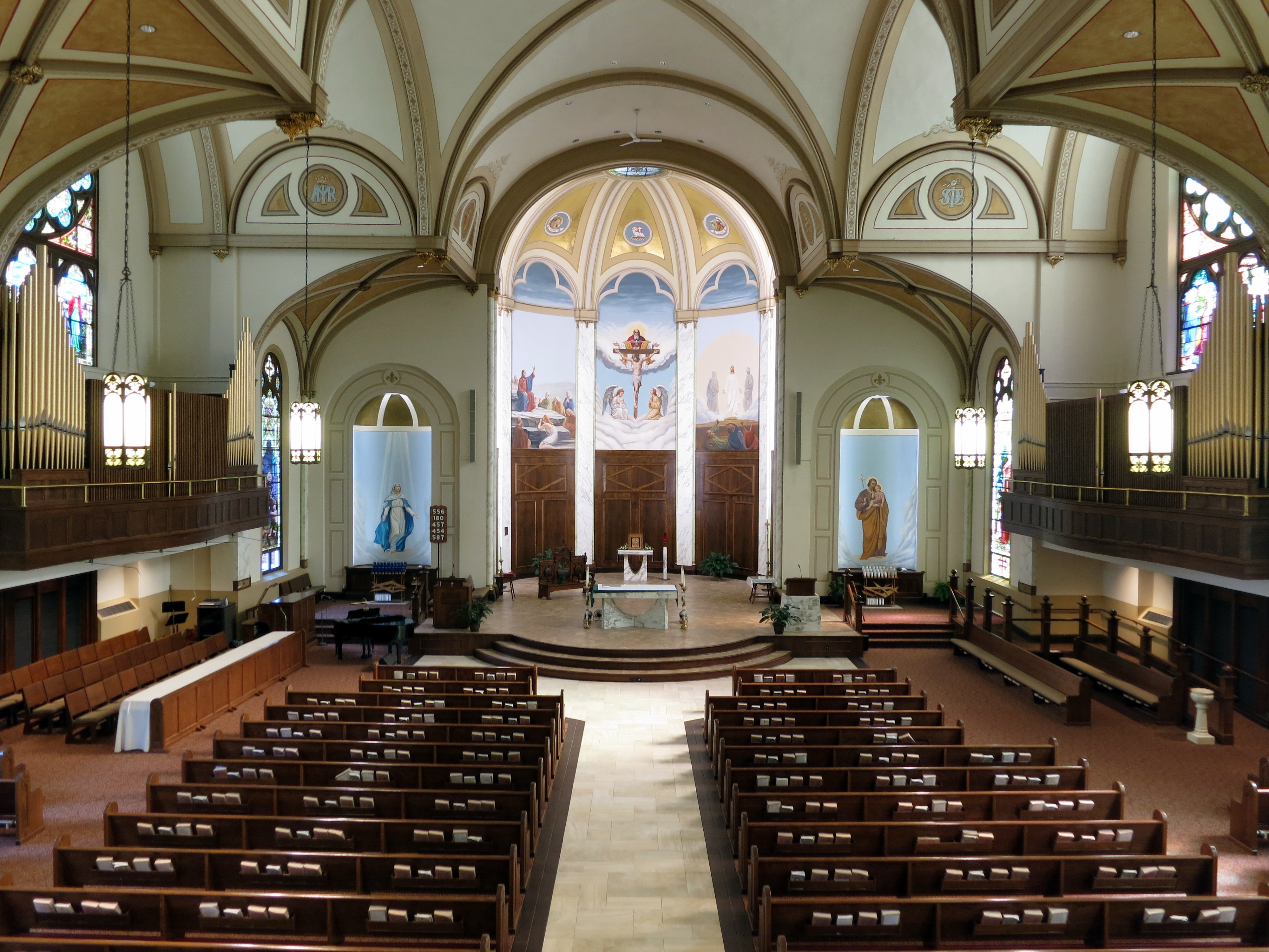 Saint Joseph Catholic Church (Wapakoneta, Ohio) - view from the loft